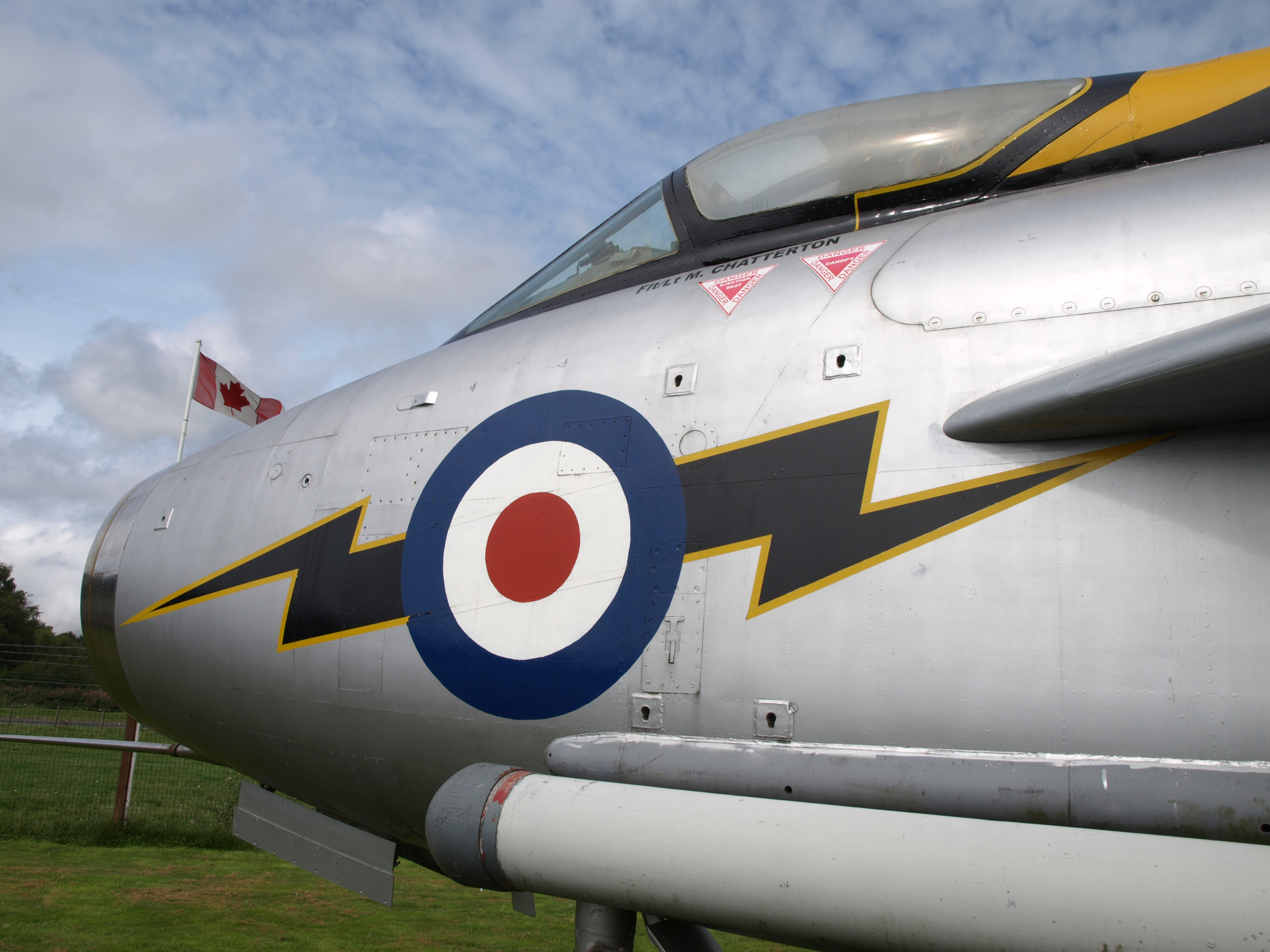 The picture is of the nose of an English Electric Lightning F53 aircraft from the collection of the Dumfries and Galloway Aviation Museum.